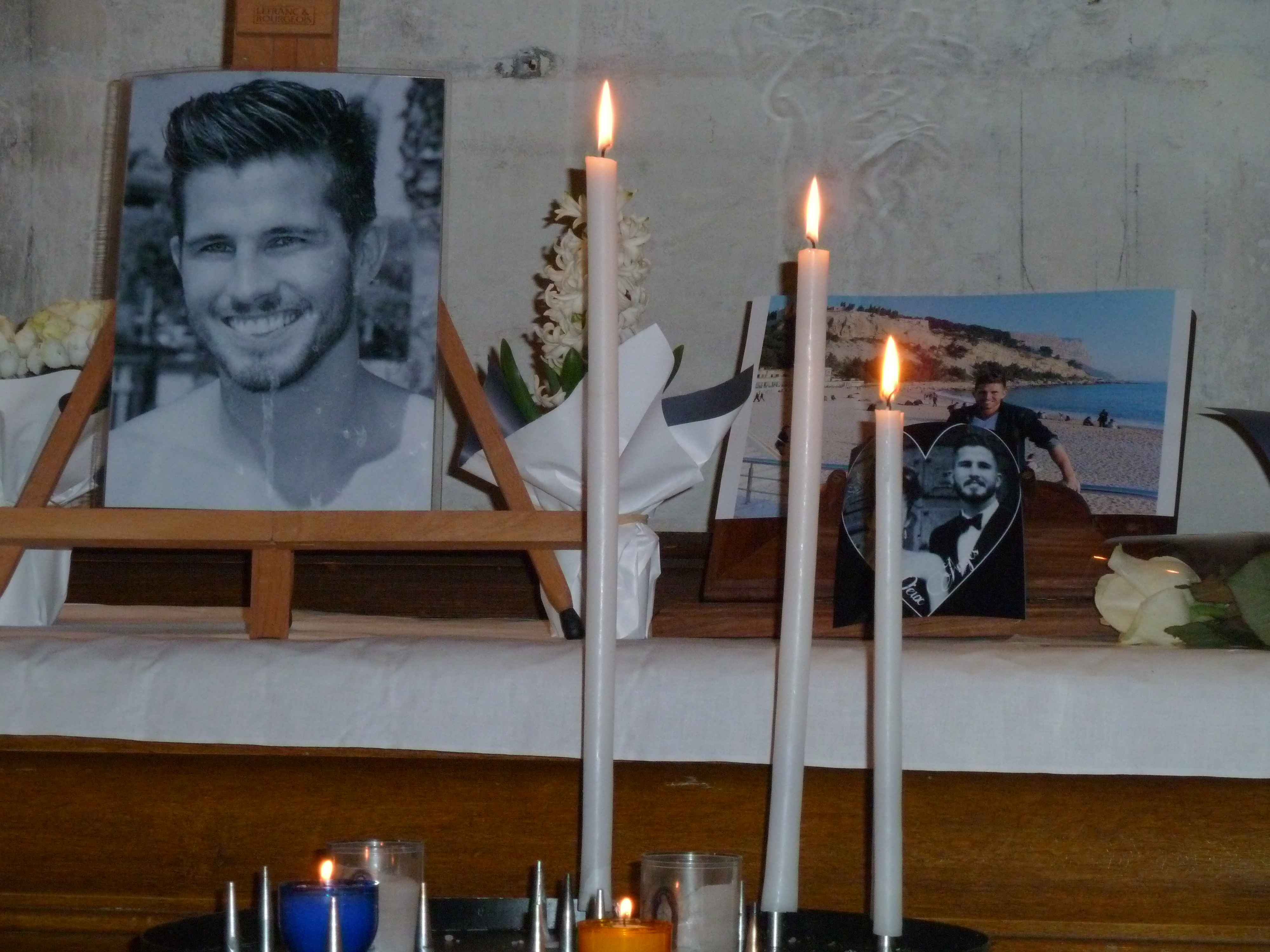 tribute to Alexis